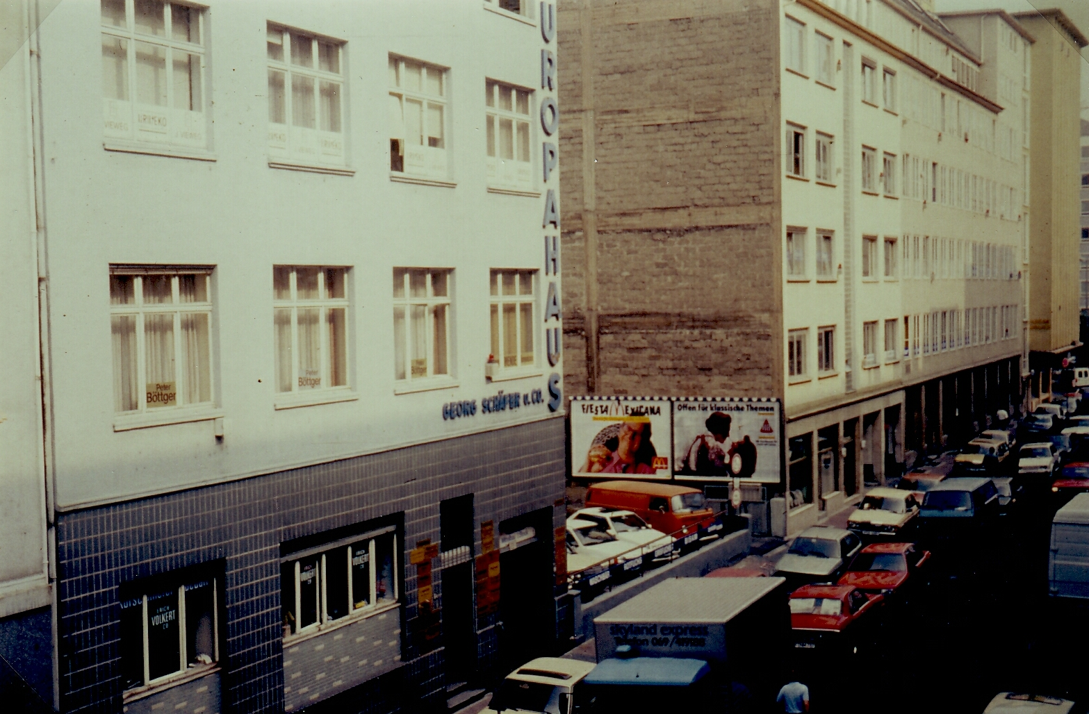 Frankfurt/Main, Niddastr. 64